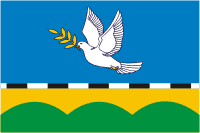 Mirskoe (Krasnodar krai), flag